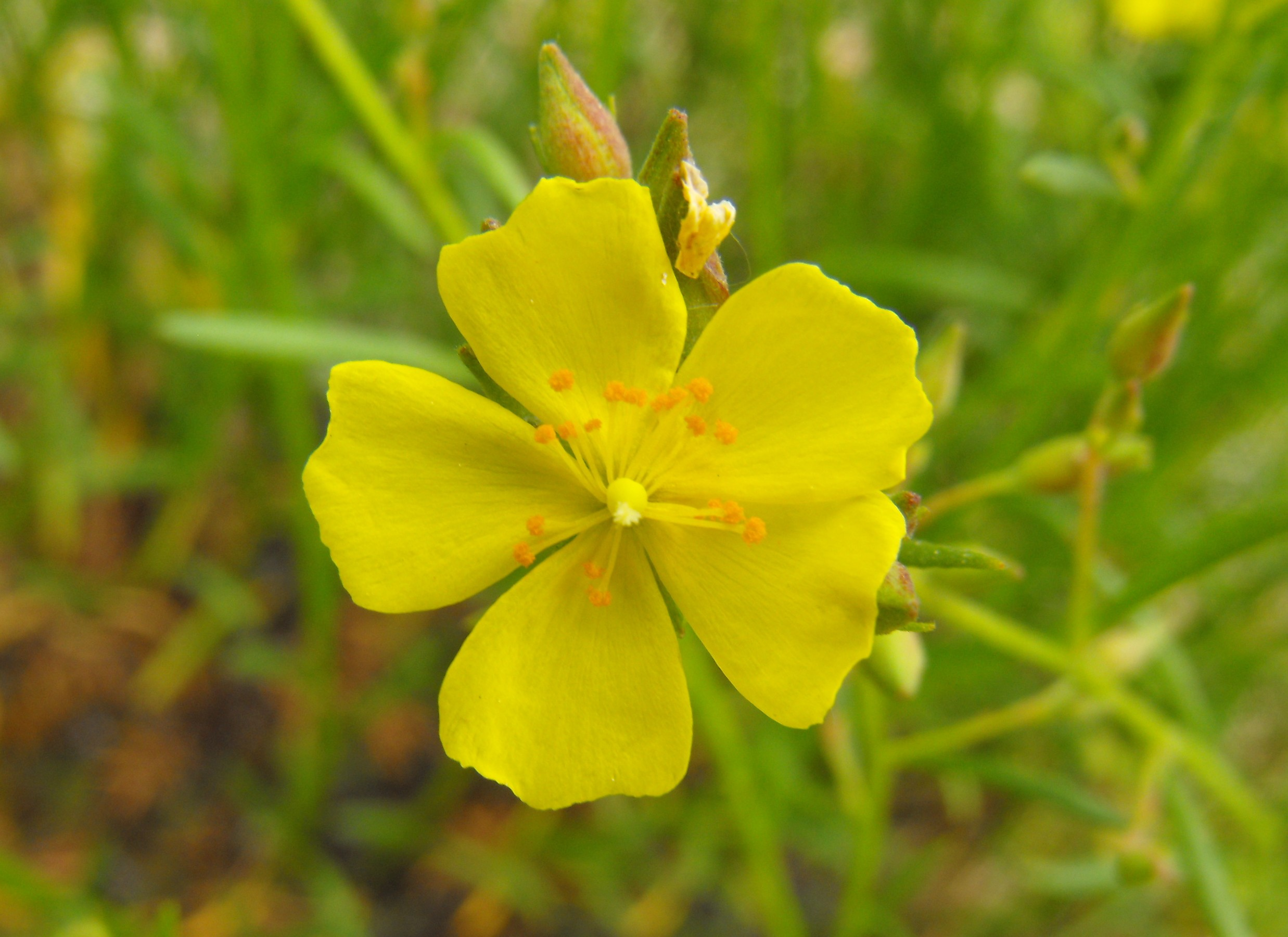 Helianthemum scoparium at the Wild Animal Park, Escondido, California, USA. Identified by sign.